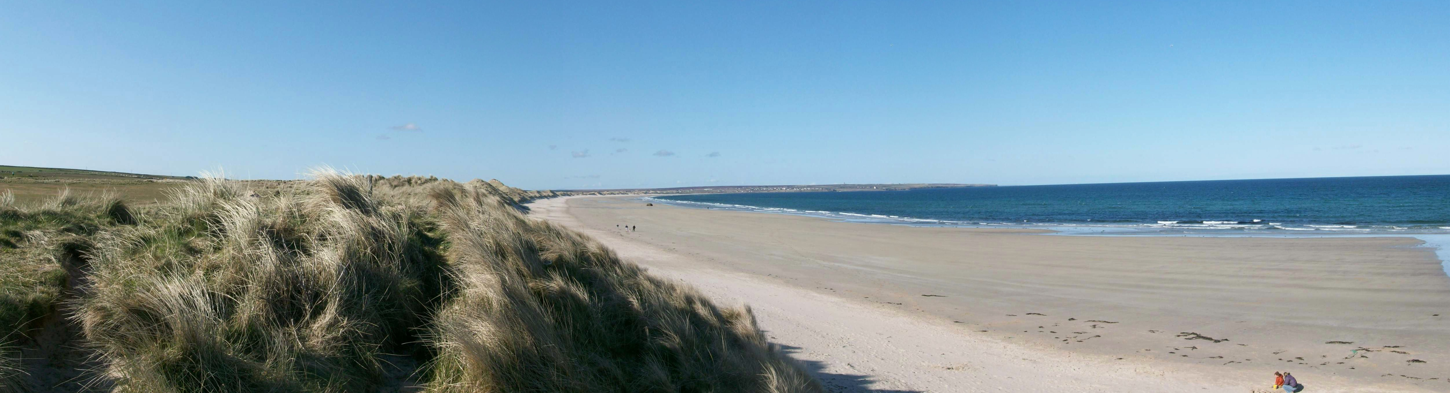 A picture of Reiss Sands, Scotland